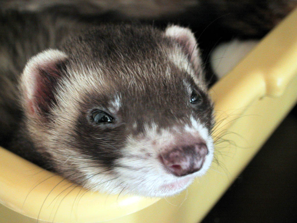 Ferret